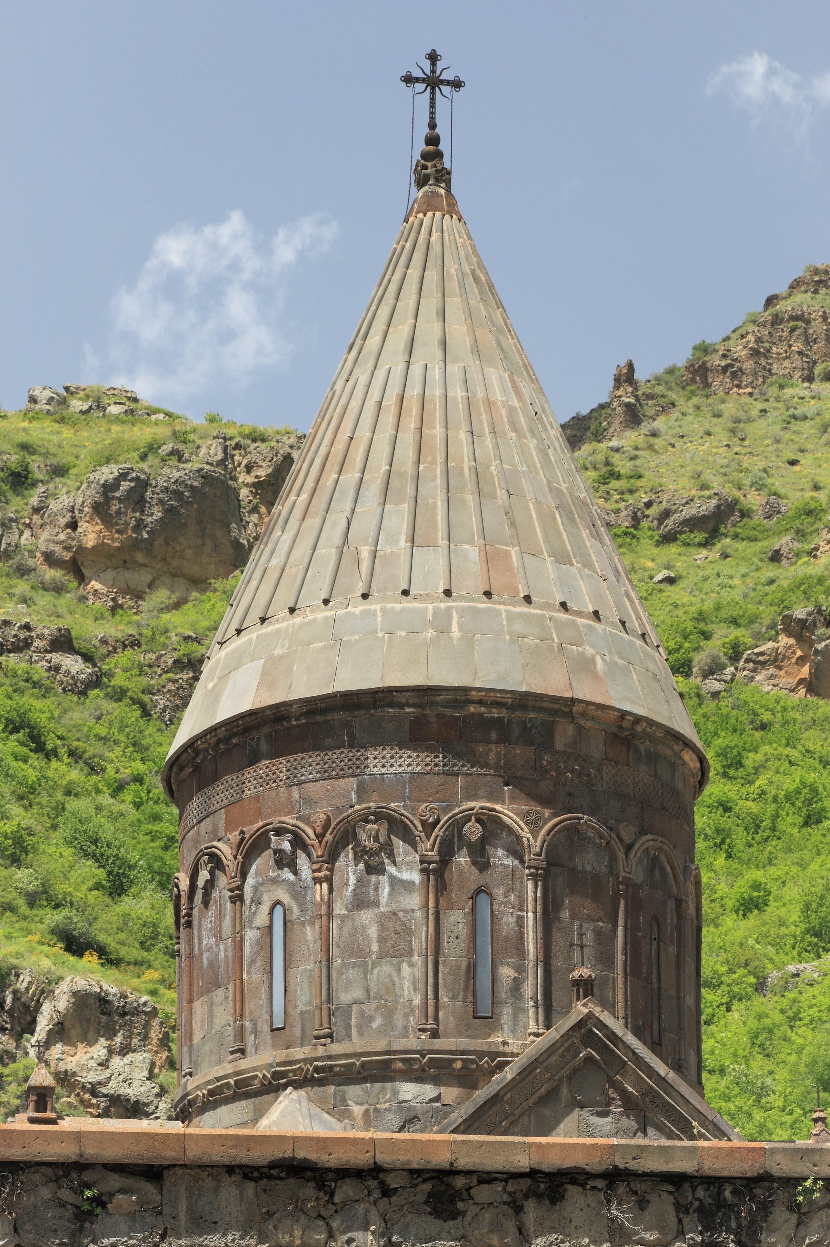 Church of Our Lady. Geghard monastery. Kotayk Province, Armenia.